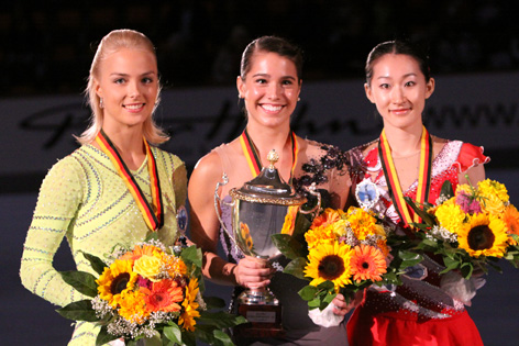 Kiira Korpi, Alissa Czisny, Liu Yan at the 2009 Nebelhorn Trophy.